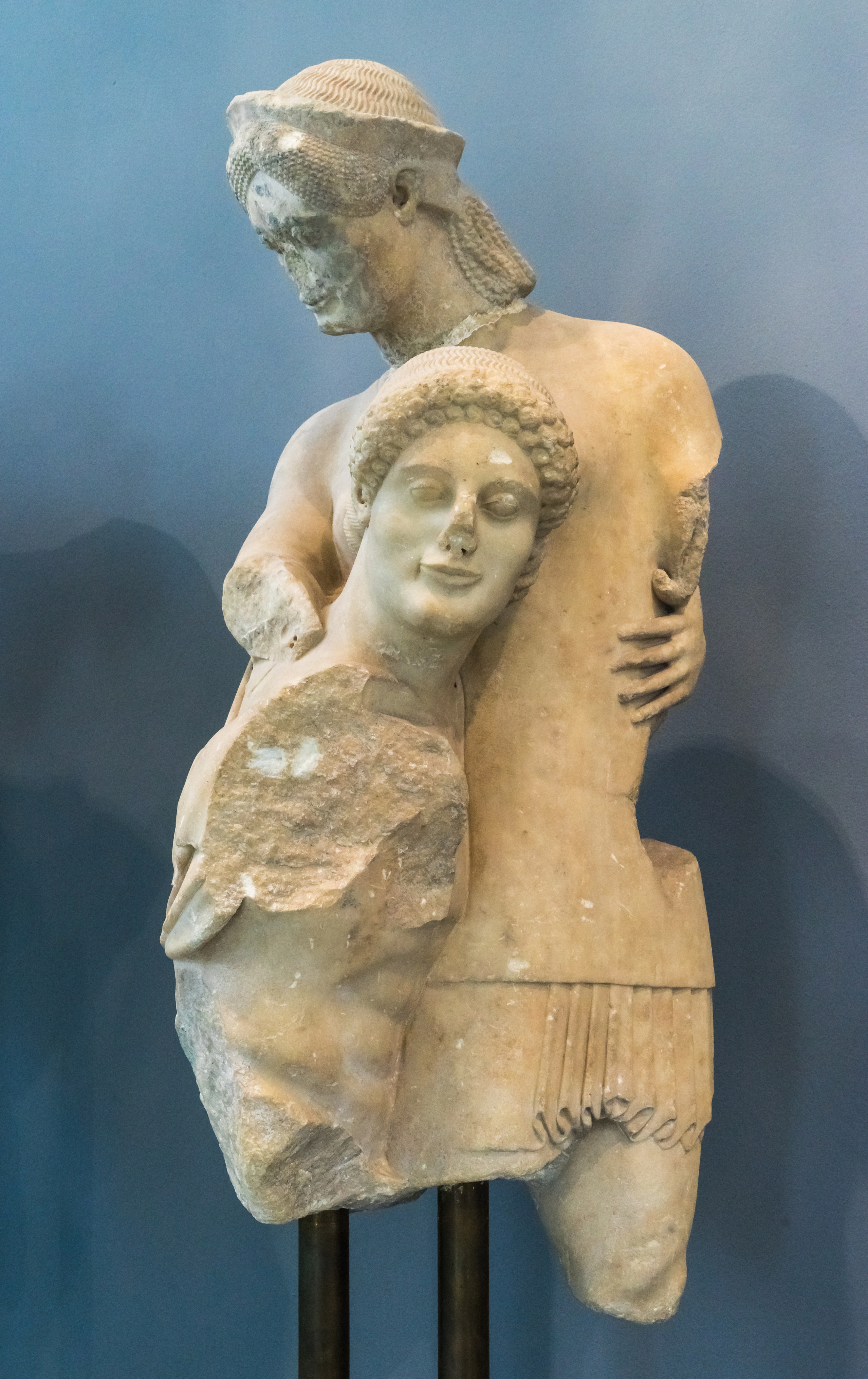 Theseus and Antiope, ca. 510 BCE. Archaeological Museum of Eretria Native nameΑρχαιολογικό Μουσείο ΕρέτριαςLocationEretria, GreeceCoordinates38° 23′ 45.96″ N, 23° 47′ 22.42″ E Established1960 Web page control : Q42114772 VIAF: 173024206 ULAN: 500300138 institution QS:P195,Q42114772